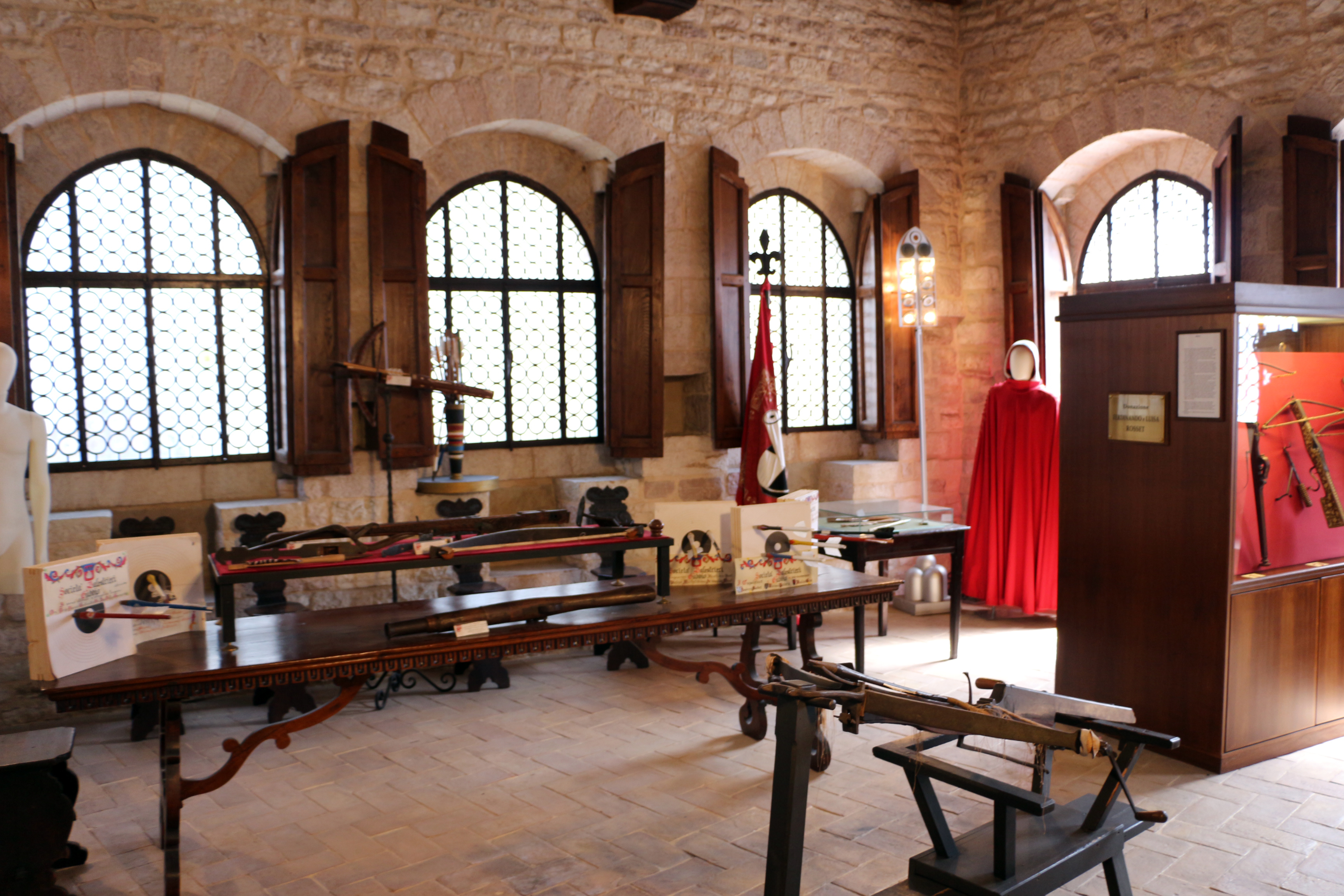 Palazzo del Bargello (Gubbio)